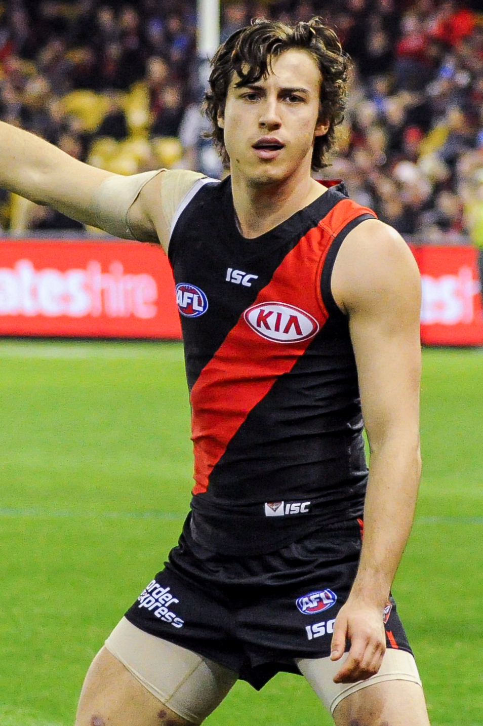 Andrew McGrath during the AFL round twelve match between Essendon and Port Adelaide on 10 June 2017 at Etihad Stadium in Melbourne, Victoria.